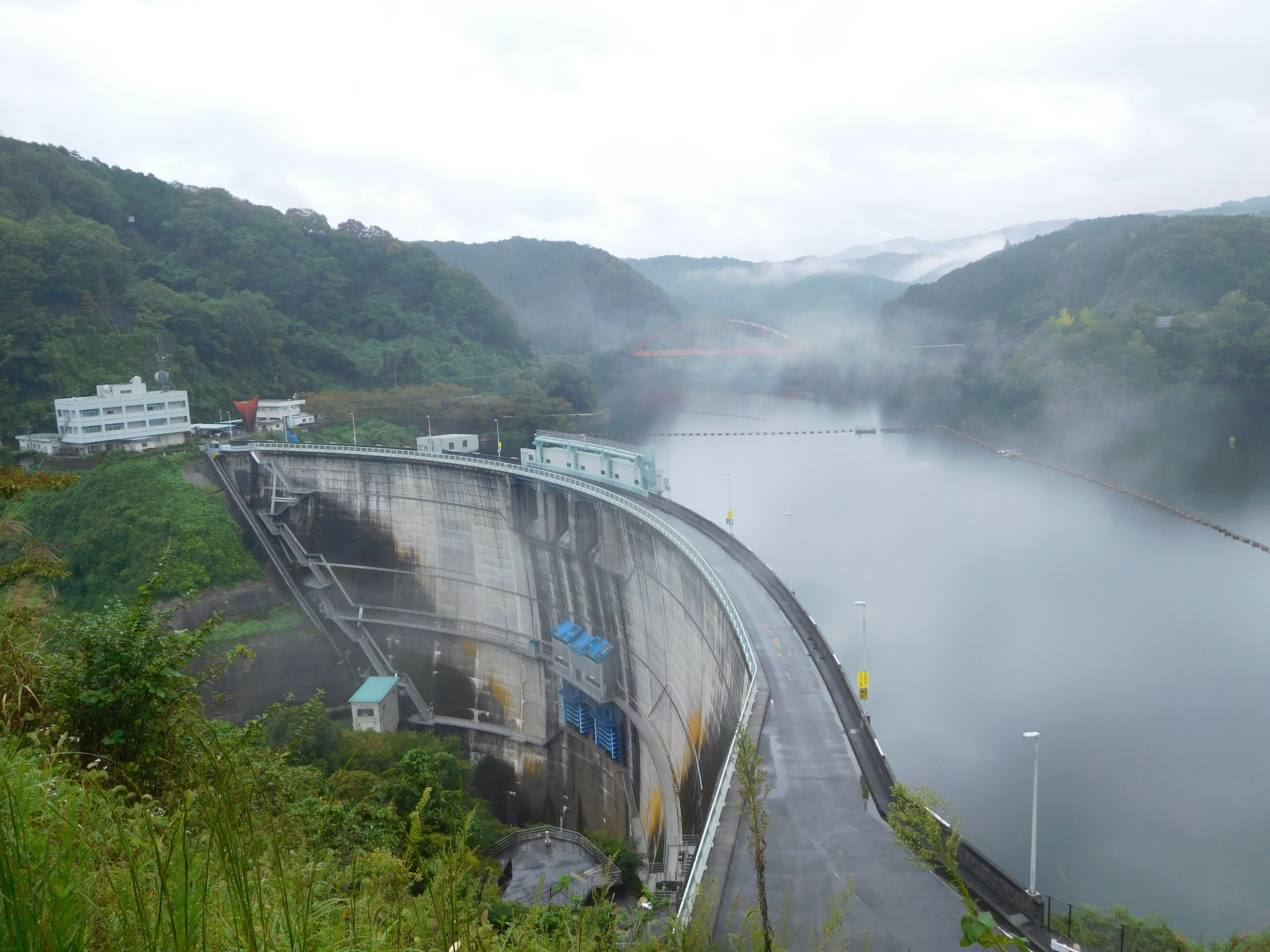 This is Shorenji Dam in Nabari, Mie, Japan.